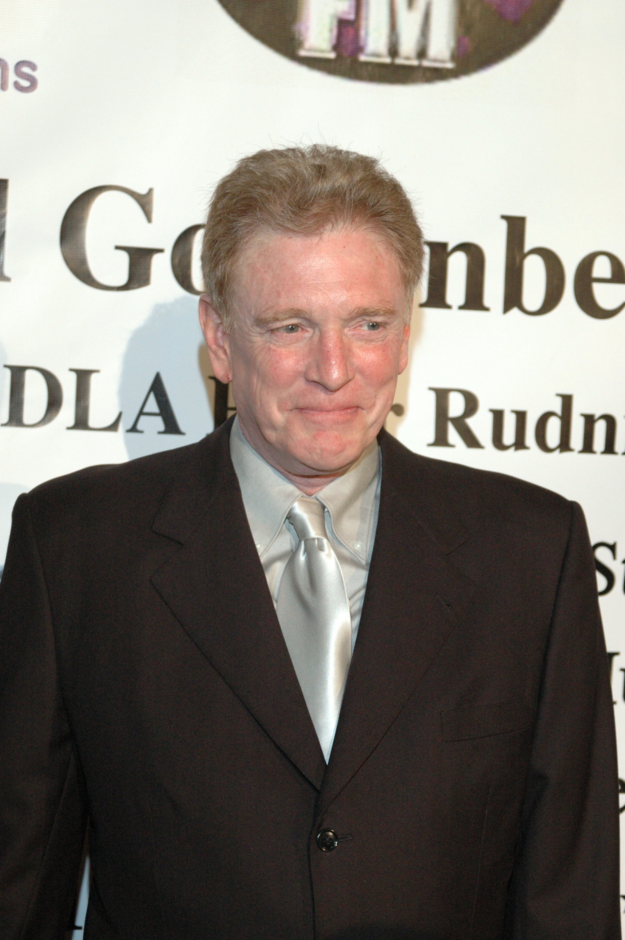 William Atherton on the Children Uniting Nations Academy Award Viewing Party red carpet, at the Beverly Hilton, Beverly Hills, Los Angeles, California. Held preceding the start of the Oscar telecast.